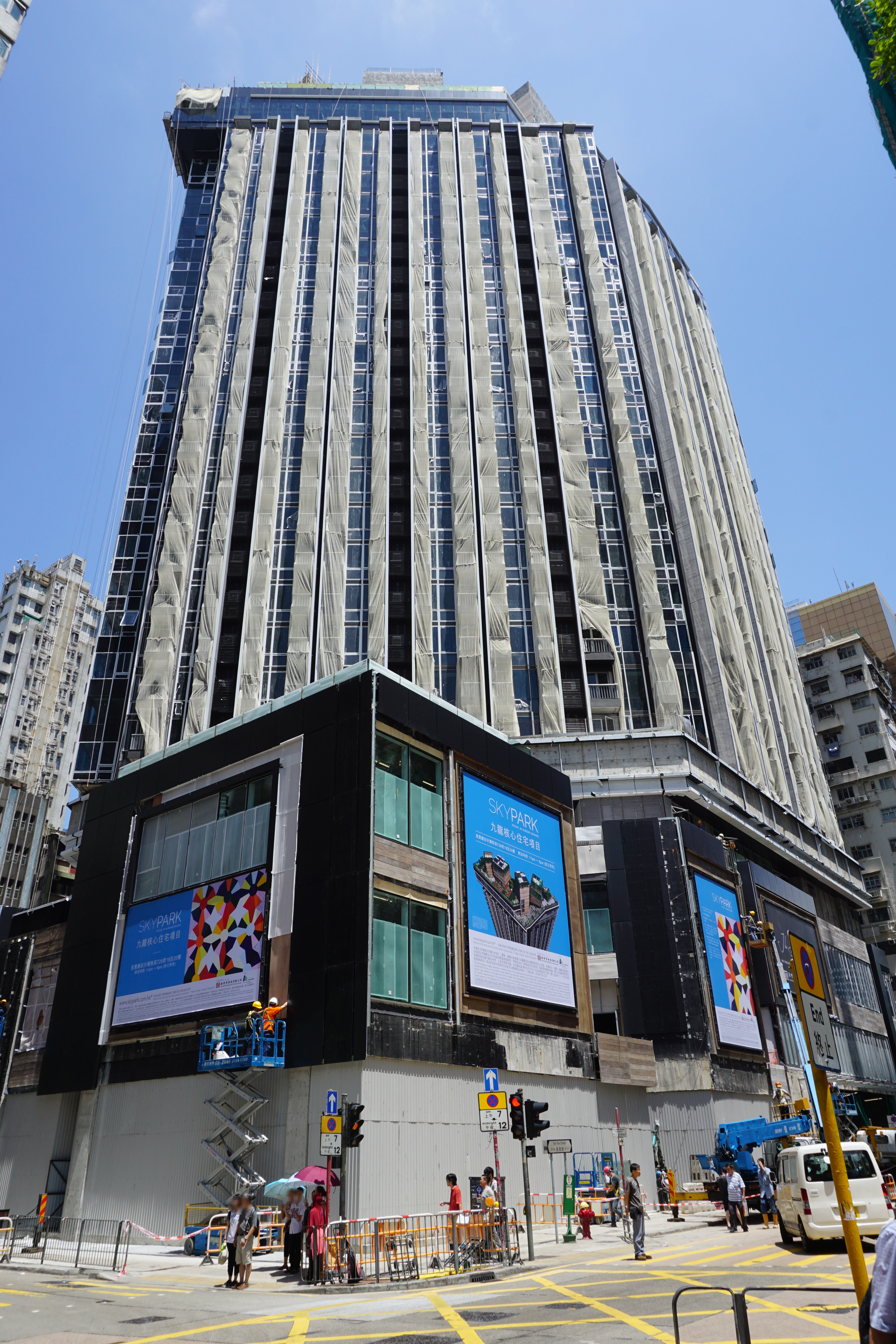 Skypark in Mong Kok, Hong Kong.